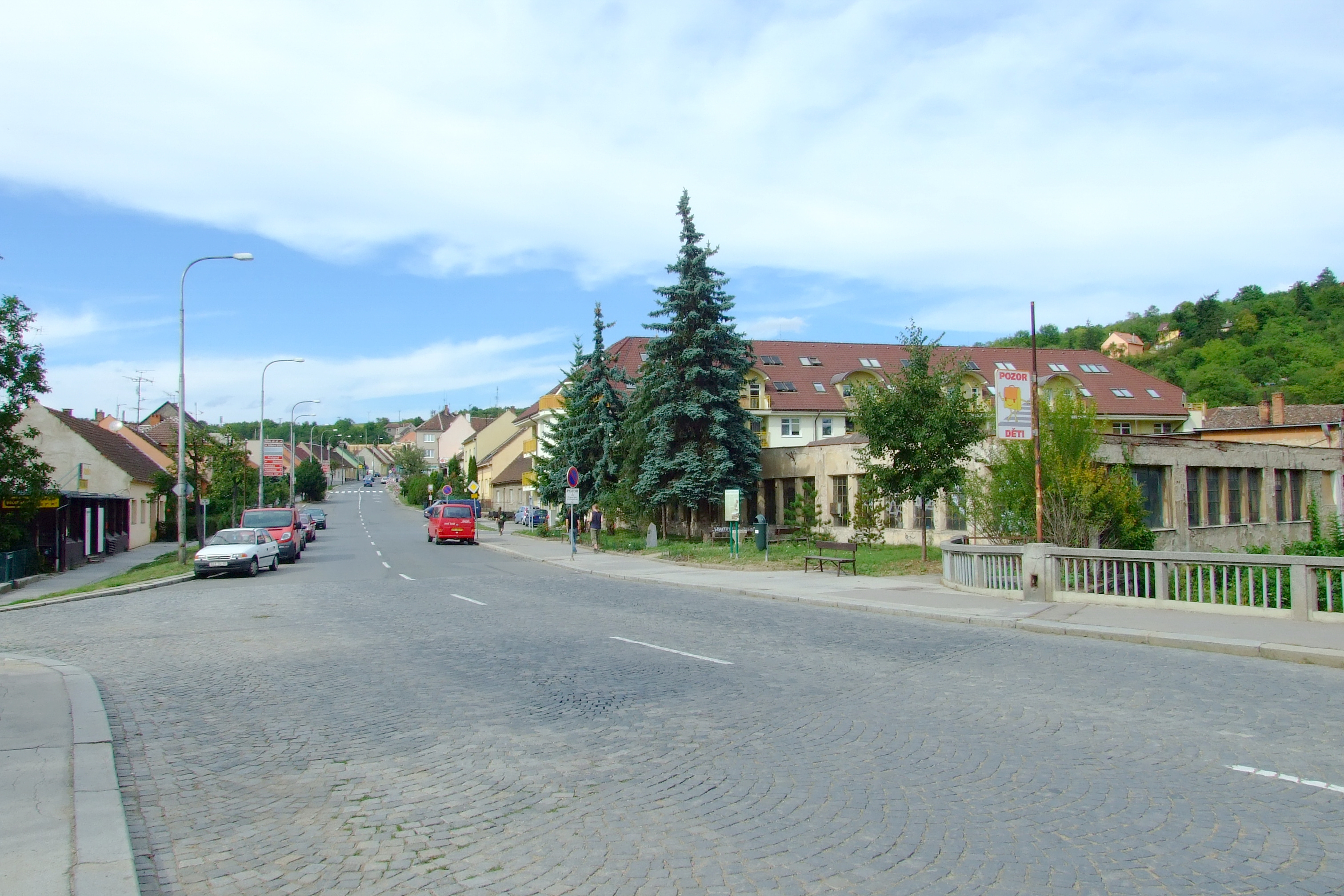 Brno-Obřany - Fryčajova street from Obřanský bridge